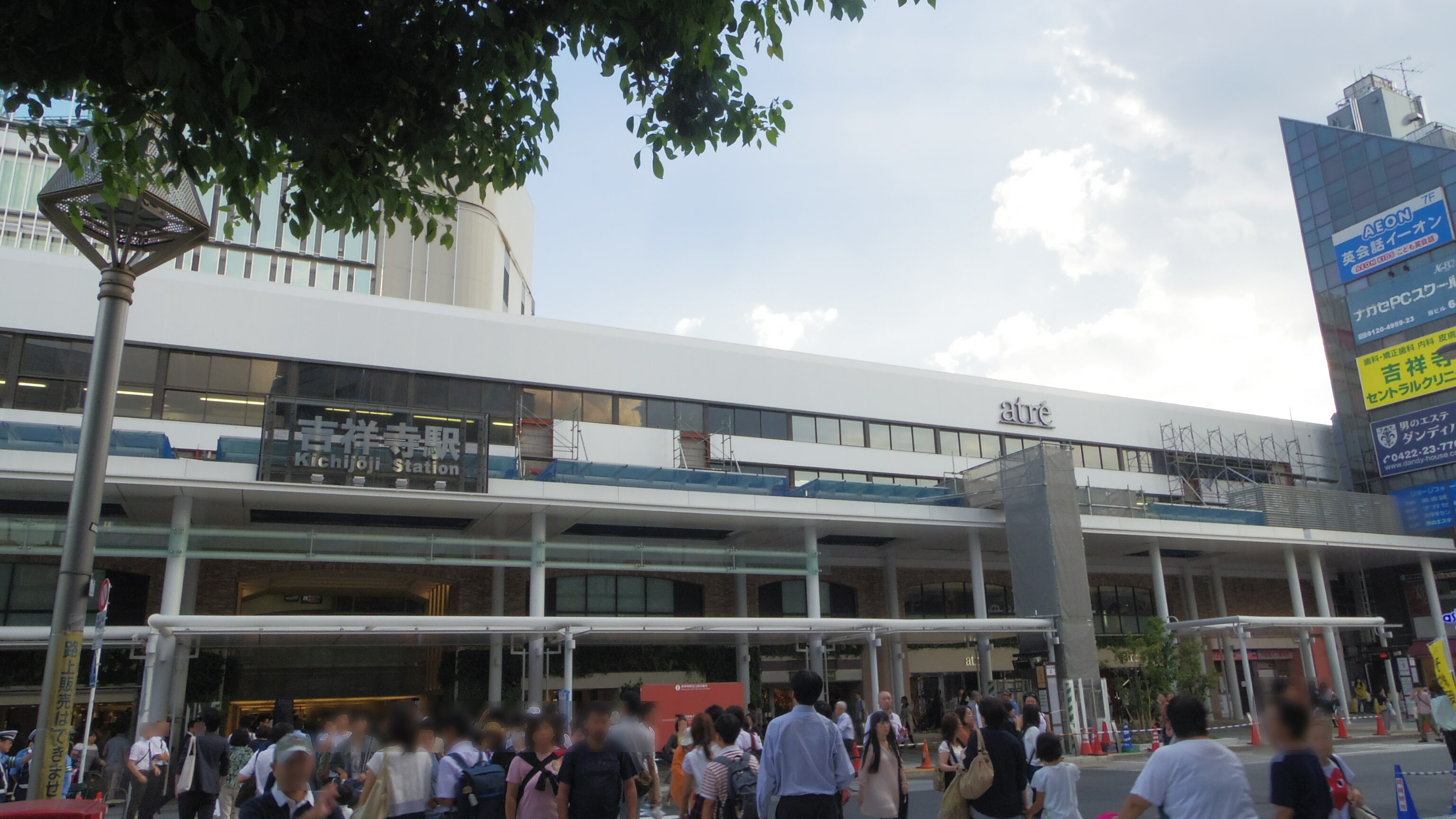 Atre Kichijoji